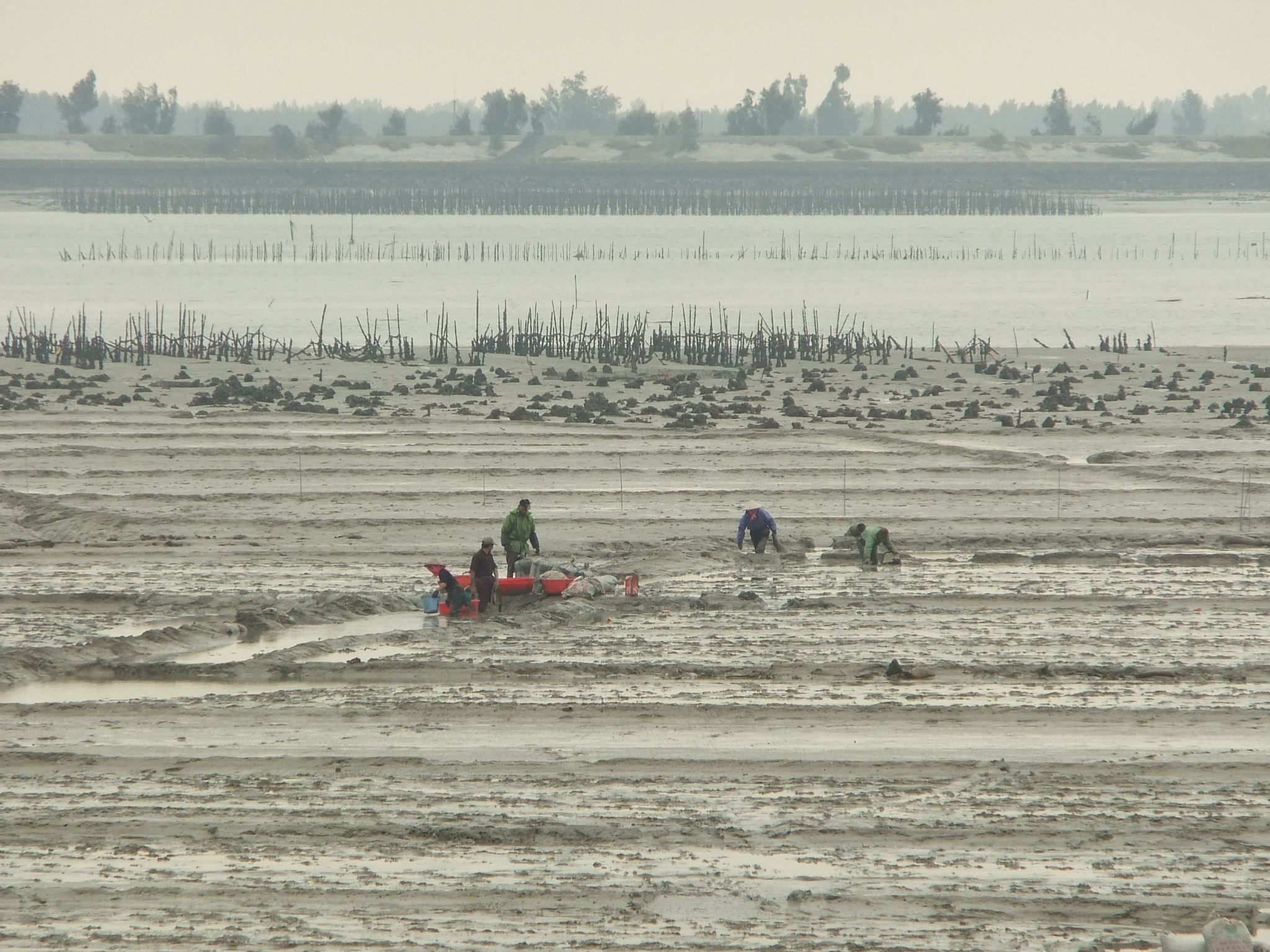 Anhai Bay is the estuary of the Shijing River. It separates Shijing Town (west side) from Dongshi town (east side). This is a tidal estuary; much of its bottom is exposed in low tide, and is used for something that looks like fishing and a form of oyster cultivation. These photos were taken from the west side of the bay, between Shijing and Shuitou; Dongshi Town's skyline can be seen in the background of some photos.